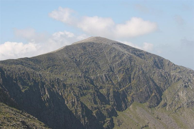 Carnedd Dafydd, Carneddau, Gwynedd